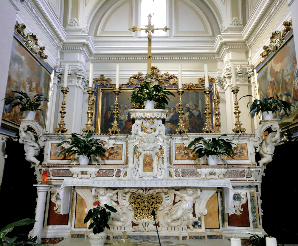 Basilica di Santa Maria Assunta - high altar